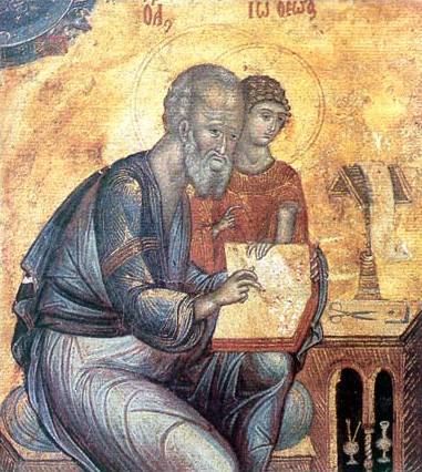 "A Portrait of the Evangelist", a miniature from the 1429 Radoslav Gospel.